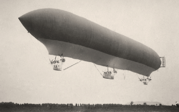 The Lebaudy airship Le Tissandier, launched in october 1914.